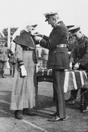 Lord Frederick William Forster (right), the Governor-General of Australia, presenting the Military Medal to Staff Nurse Pearl Corkhill at a medal investiture ceremony.